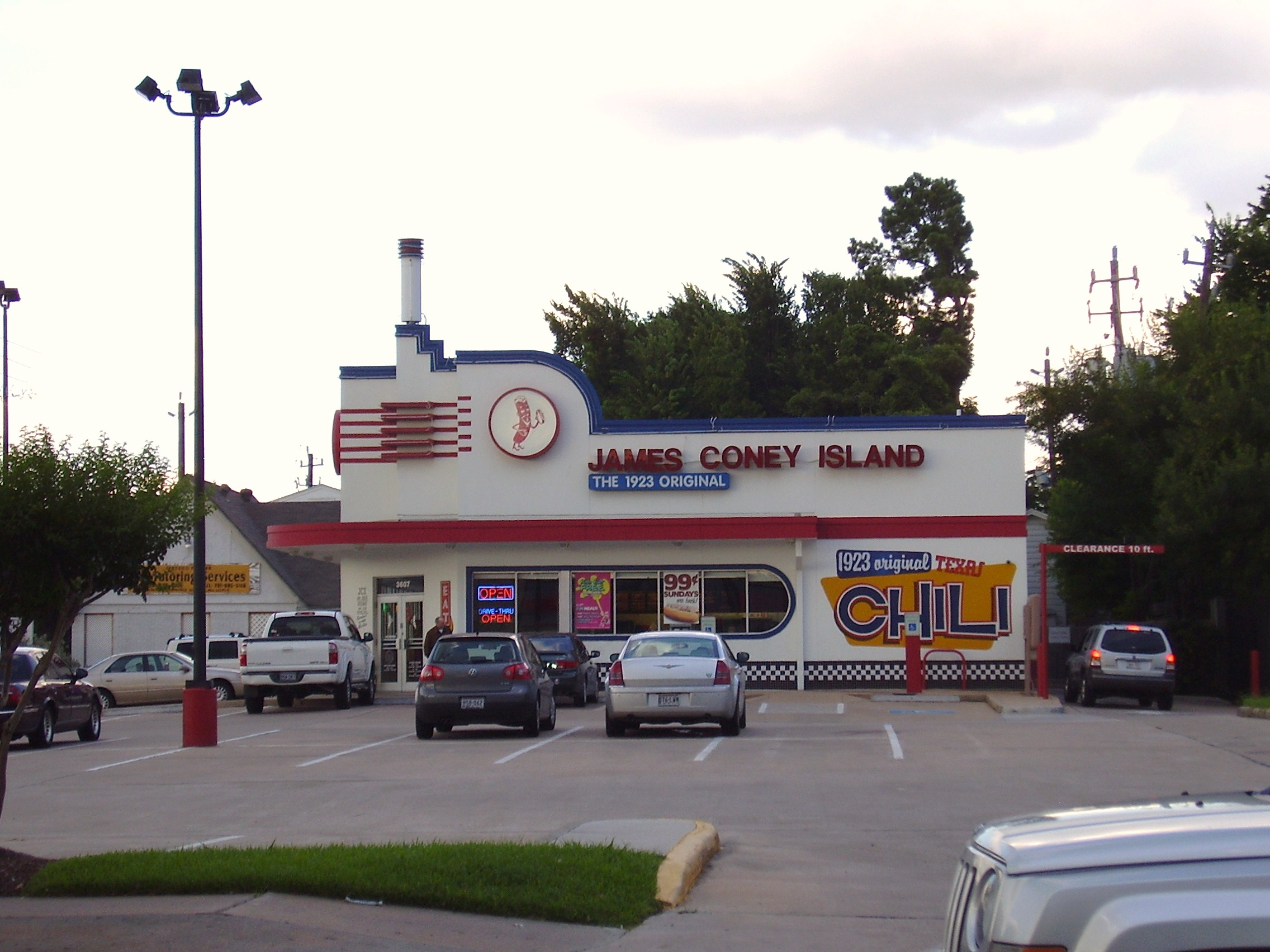 James Coney Island Shepherd restaurant - 3607 South Shepherd Drive, Houston, TX 77098